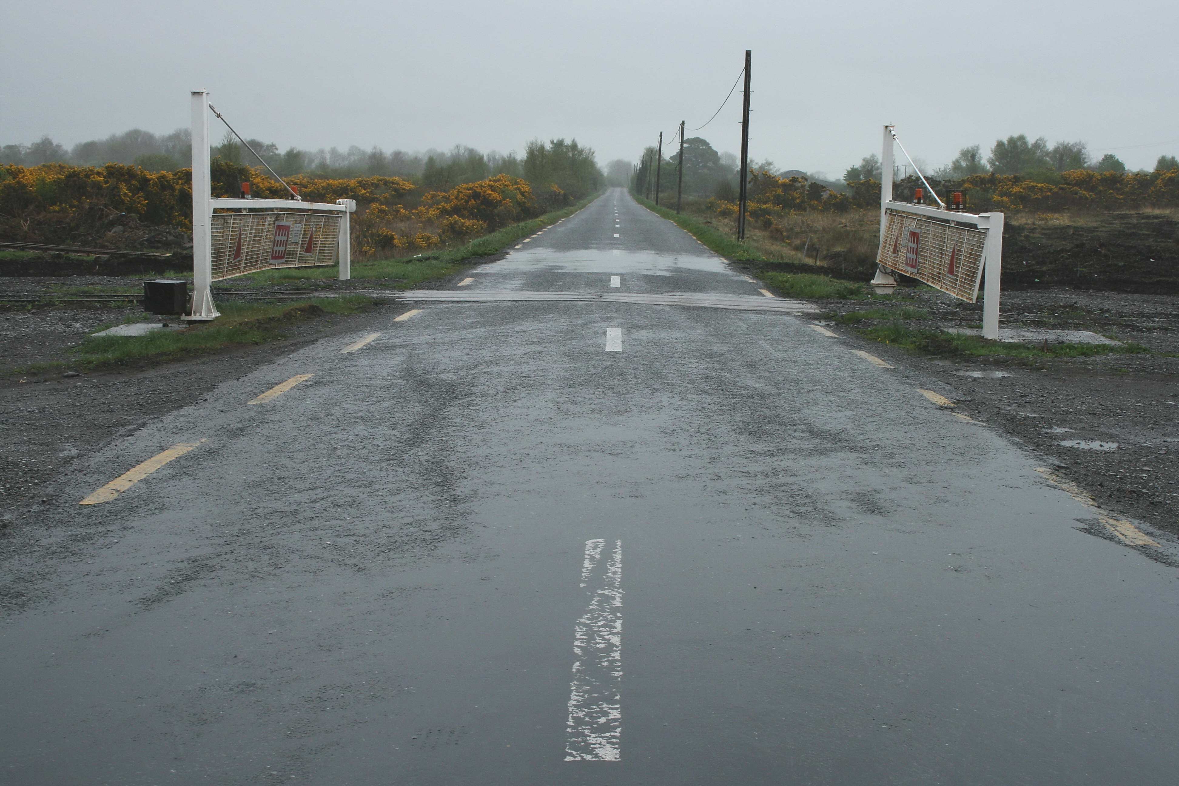 The R436 west of Ballycumber at a Bord na Móna industrial railway crossing